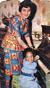 A picture for Fathia Nkrumah with son Gamal . Fathia Nkrumah (1932- 2007), the Egyptian wife of Kwame Nkrumah, the first President of Ghana